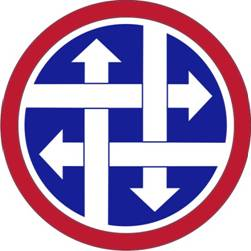 4th Sustainment Command Shoulder Sleeve Insignia